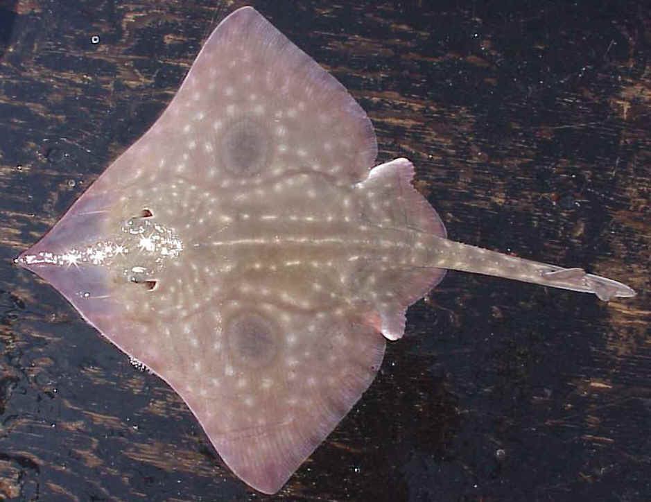 Big skate (Beringraja binoculata - synonym: Raja binoculata)